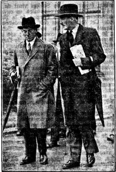 Anthony Eden and Lord Chatfield at Nyon Conference, 1937